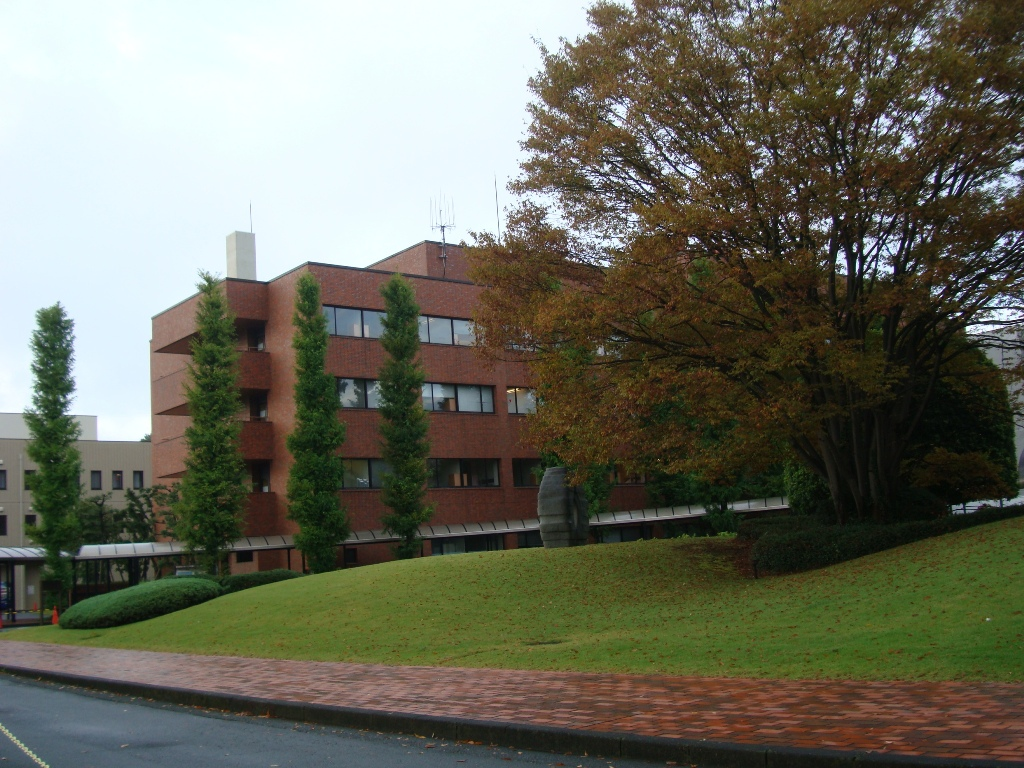 Tokyo Medical University Hachioji Medical Center, Hachioji, Tokyo